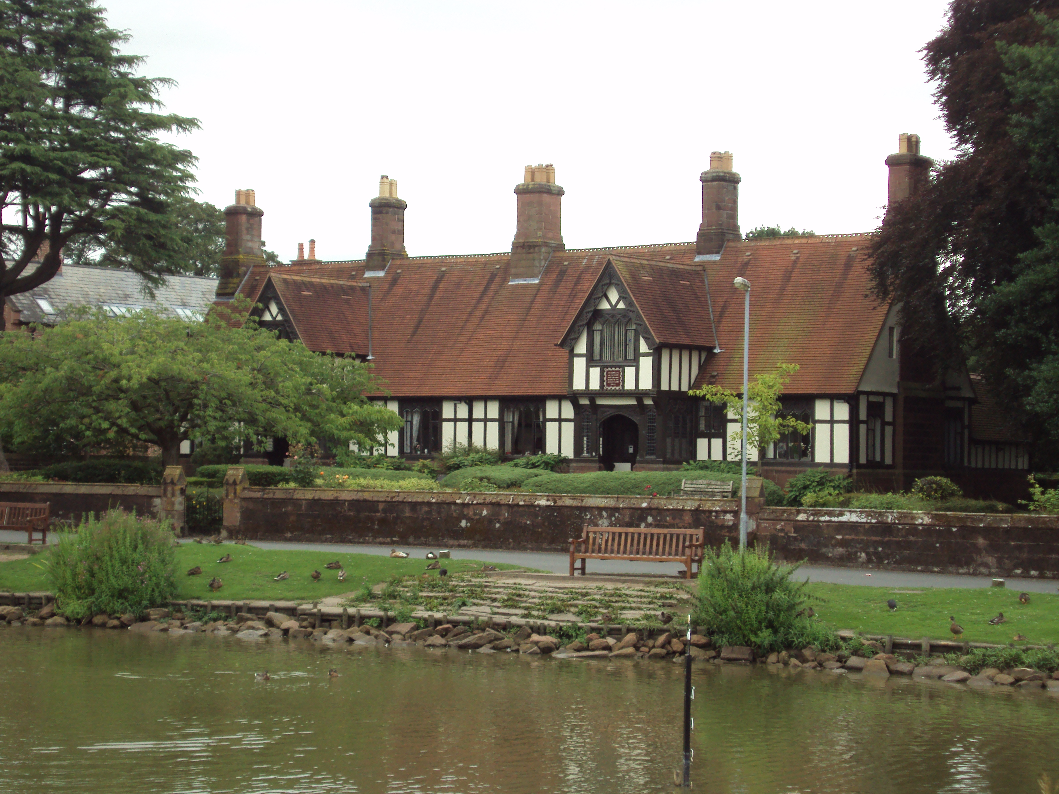 Large house near Christleton Pit, Cheshire.